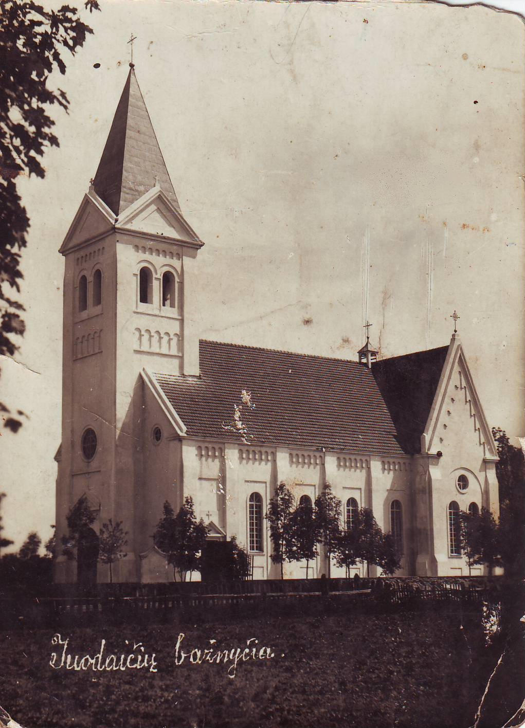 Juodaičių bažnyčia prieš karą